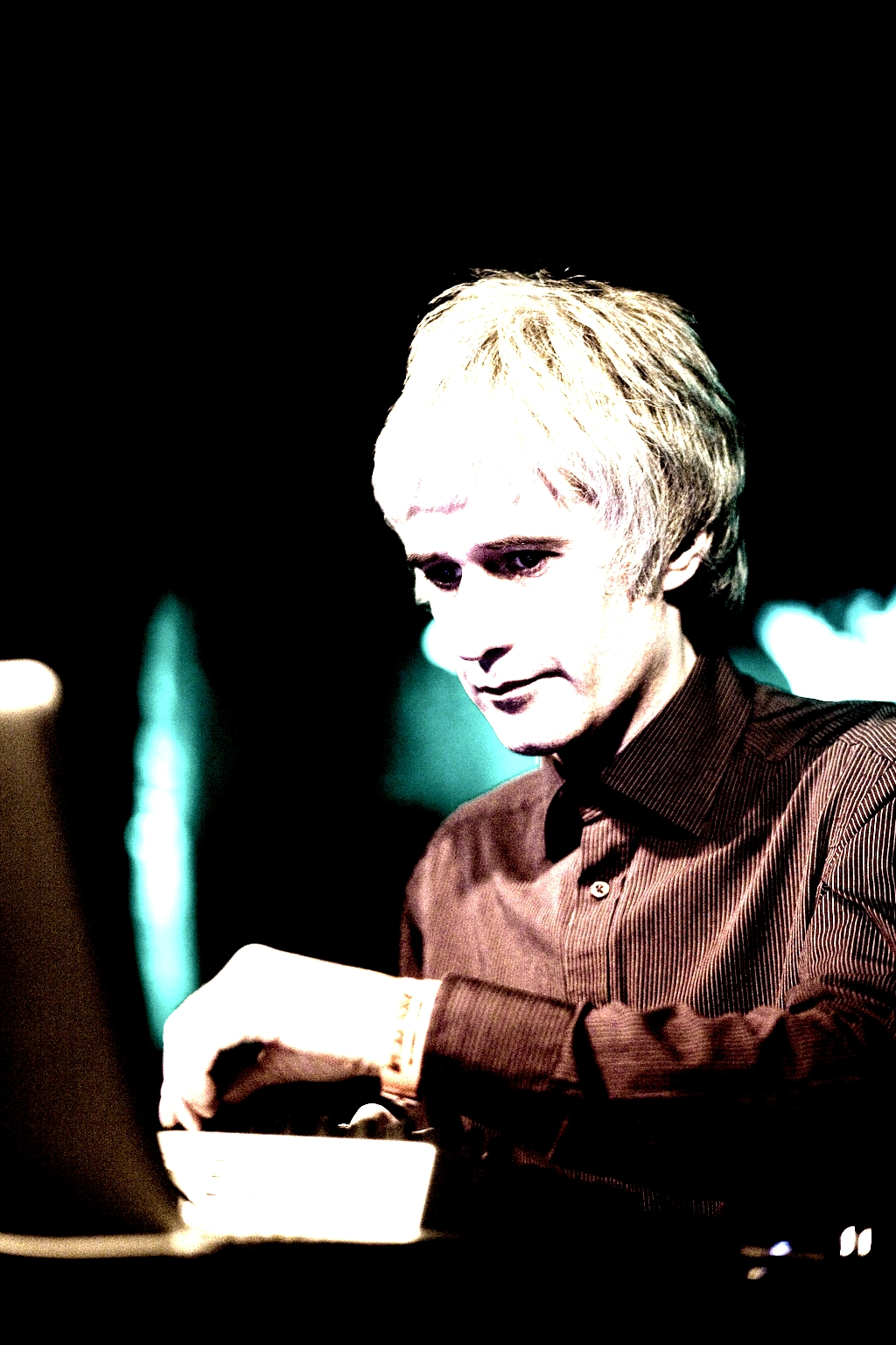 Robert Hampson - Incubate festival 2010